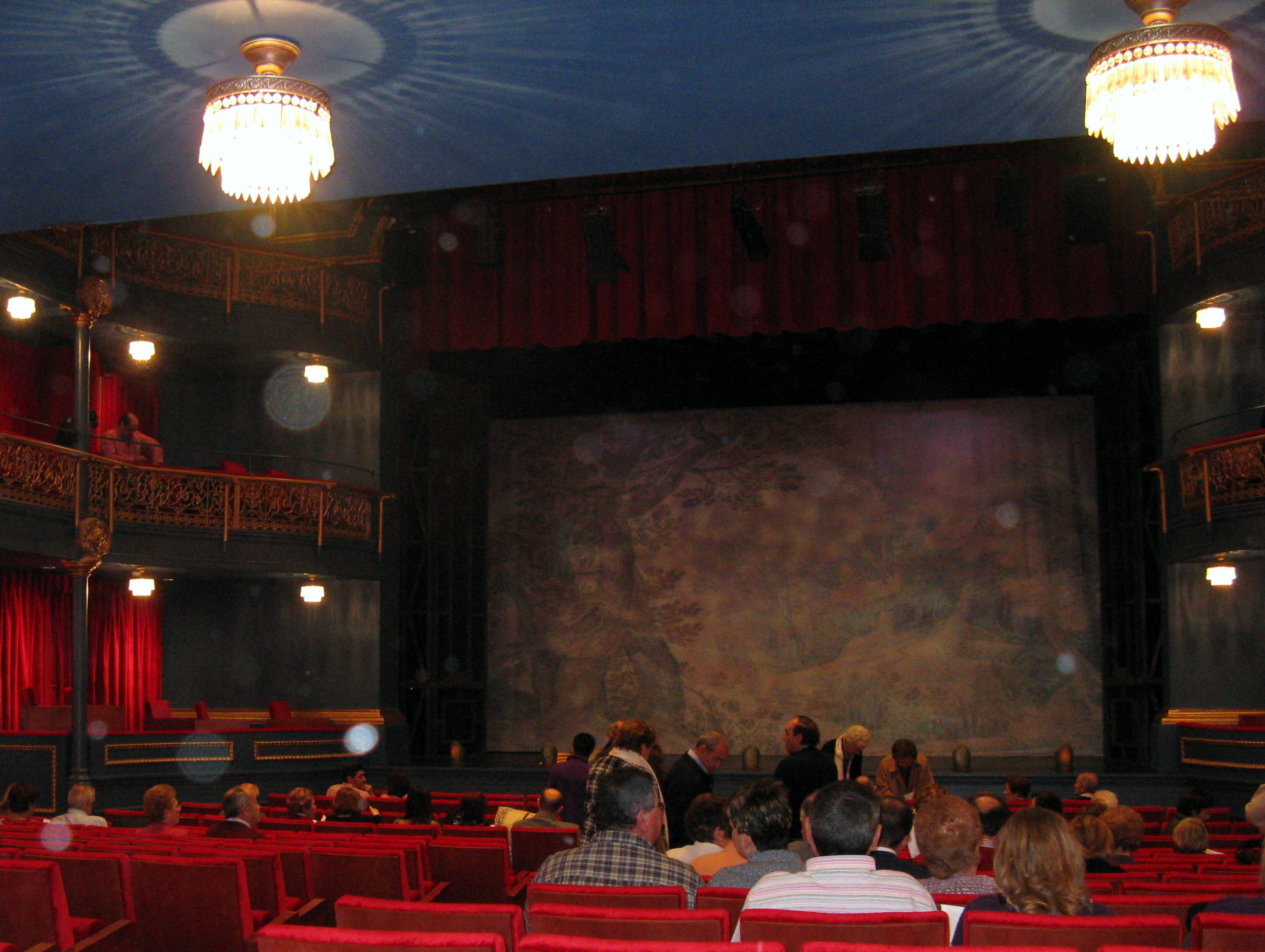 Inside view of Zorrilla's Theater in Valladolid